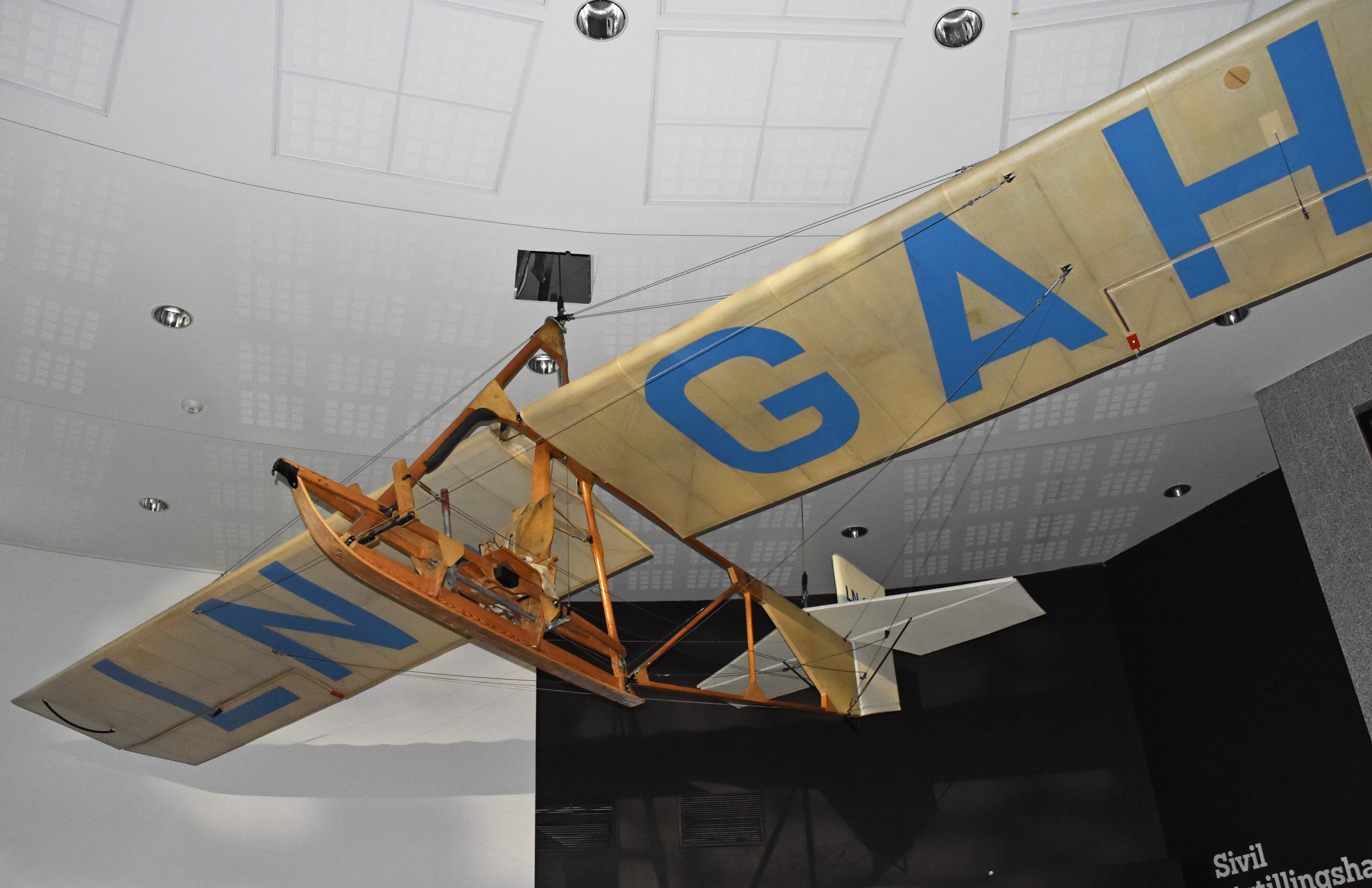 c/n Jeloy.2 On display at the entrance to the Civil Aircraft Hall of the Norsk Luftfartsmuseum (Norwegian Aviation Museum). Bodø, Northern Norway 24th May 2019 The following information is from the Museum website:- “The Museum’s Grunau 9, LN-GAH, was built by Jeløy Glider Club between 1938-40, and was registered for the first time in March 1940. In the summer of 1950, the club’s headquarters were situated at the old Rygge airfield. A winch was used to launch the aircraft. The Airforce school of aviation was also located at Rygge, and many of the student pilots took the opportunity of trying their hands at gliding. The LN-GAH broke down on September 20, 1959, and was removed from the register in 1960 and stored in a barn in Gudbrandsdalen. Bodø Aviation History Society (Bodø Luftfartshistorisk Forening) later took over and restored it for display at the Norwegian Aviation Museum.”